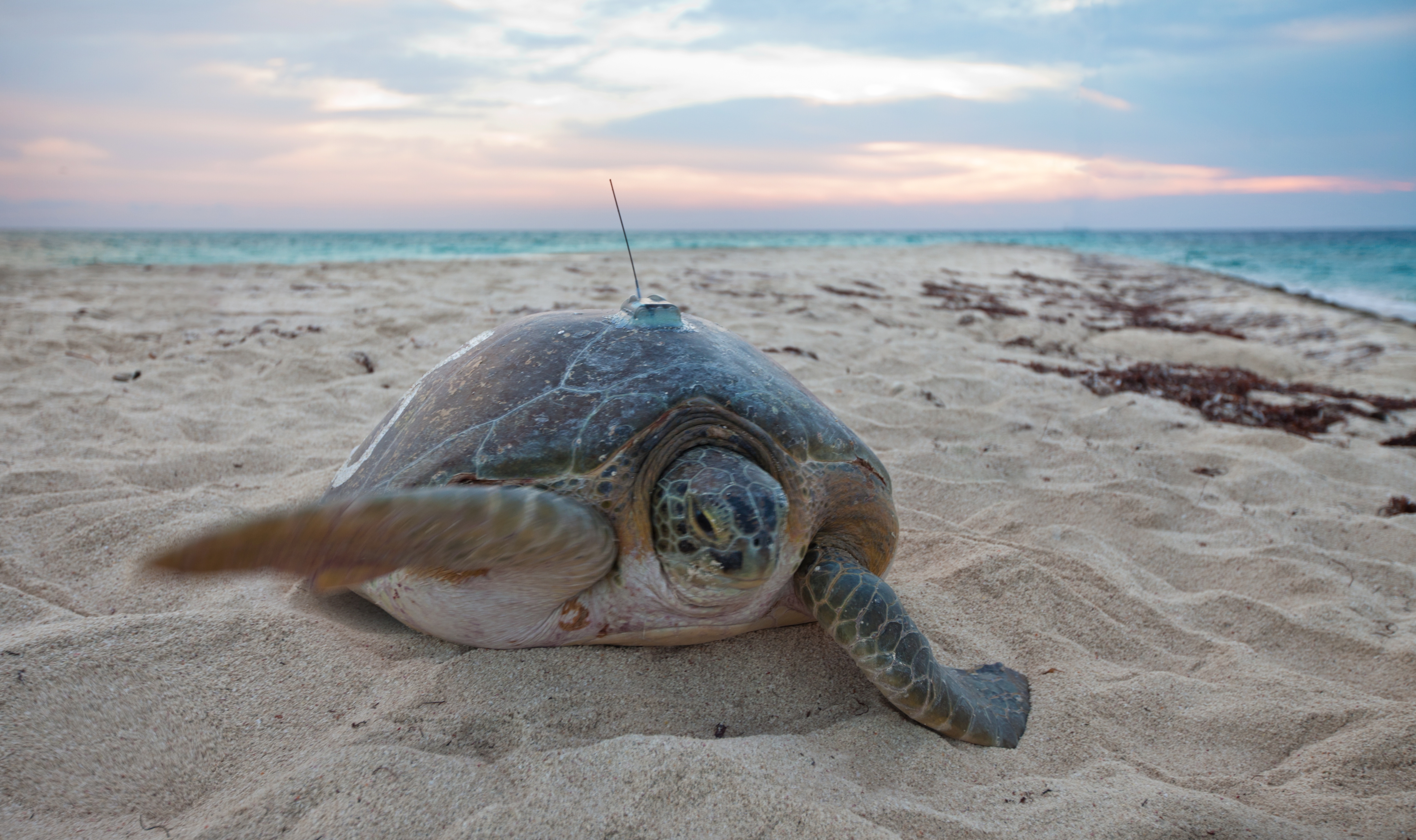 Tracking Sea Turtles — Nesting green sea turtles are benefiting from marine protected areas by using habitats found within their boundaries, according to a USGS study that was the first to track the federally protected turtles in Dry Tortugas National Park. Green turtles are endangered in Florida and threatened throughout the rest of their range, and the habits of green sea turtles after their forays to nest on beaches in the Southeast U.S. have long remained a mystery. Until this research, it was not clear whether the turtles made use of existing protected areas, and few details were available as to whether they were suited for supporting the green sea turtle’s survival. USGS researchers tracked turtles with satellite tags and found they spent much of their time in protected sites within both Dry Tortugas National Park and the surrounding areas of the Florida Keys Marine National Sanctuary. Learn more at